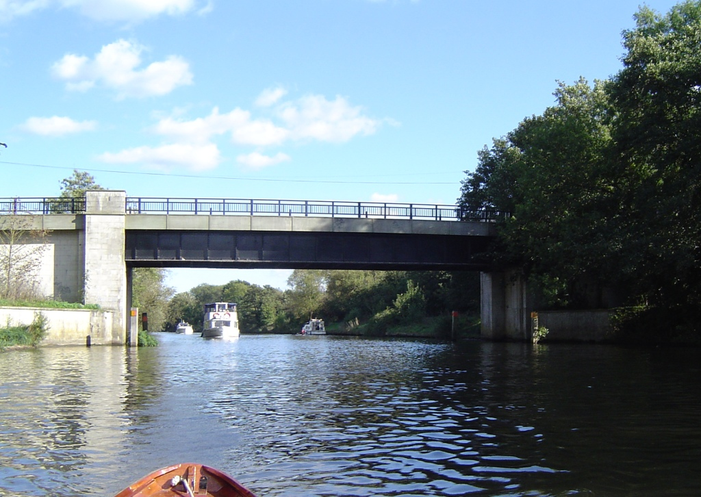 Bridge to Desborough Island